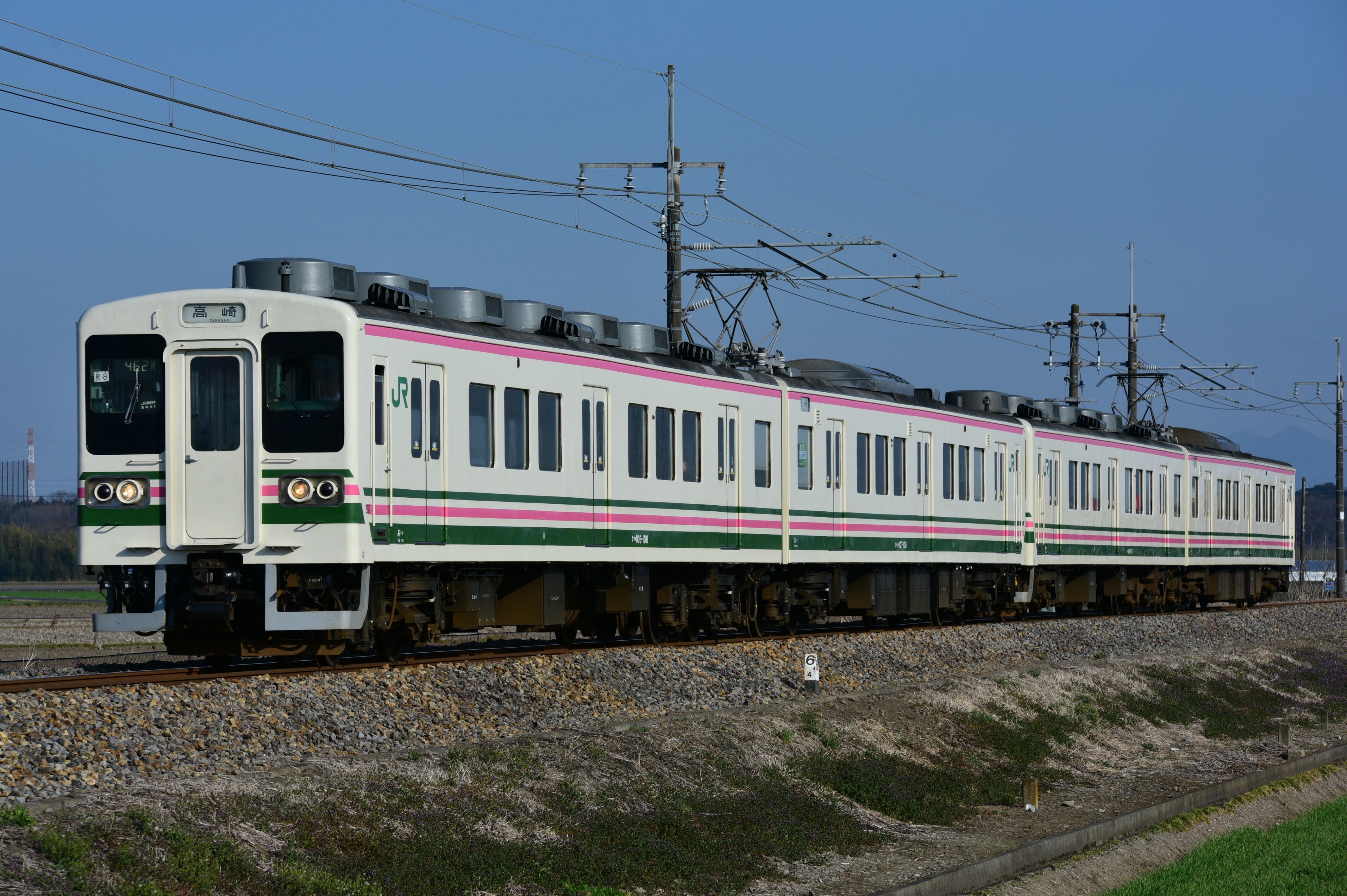 JR East 107-100 series EMU set R8 leading a 4-car formation on the Ryomo Line